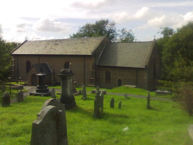 The Church of St. David & St. Cyfelach, Llangyfelach This church is one of only three in Wales to have a detached tower (the tower is to the left). The church attached to the tower was destroyed by a storm in 1803.